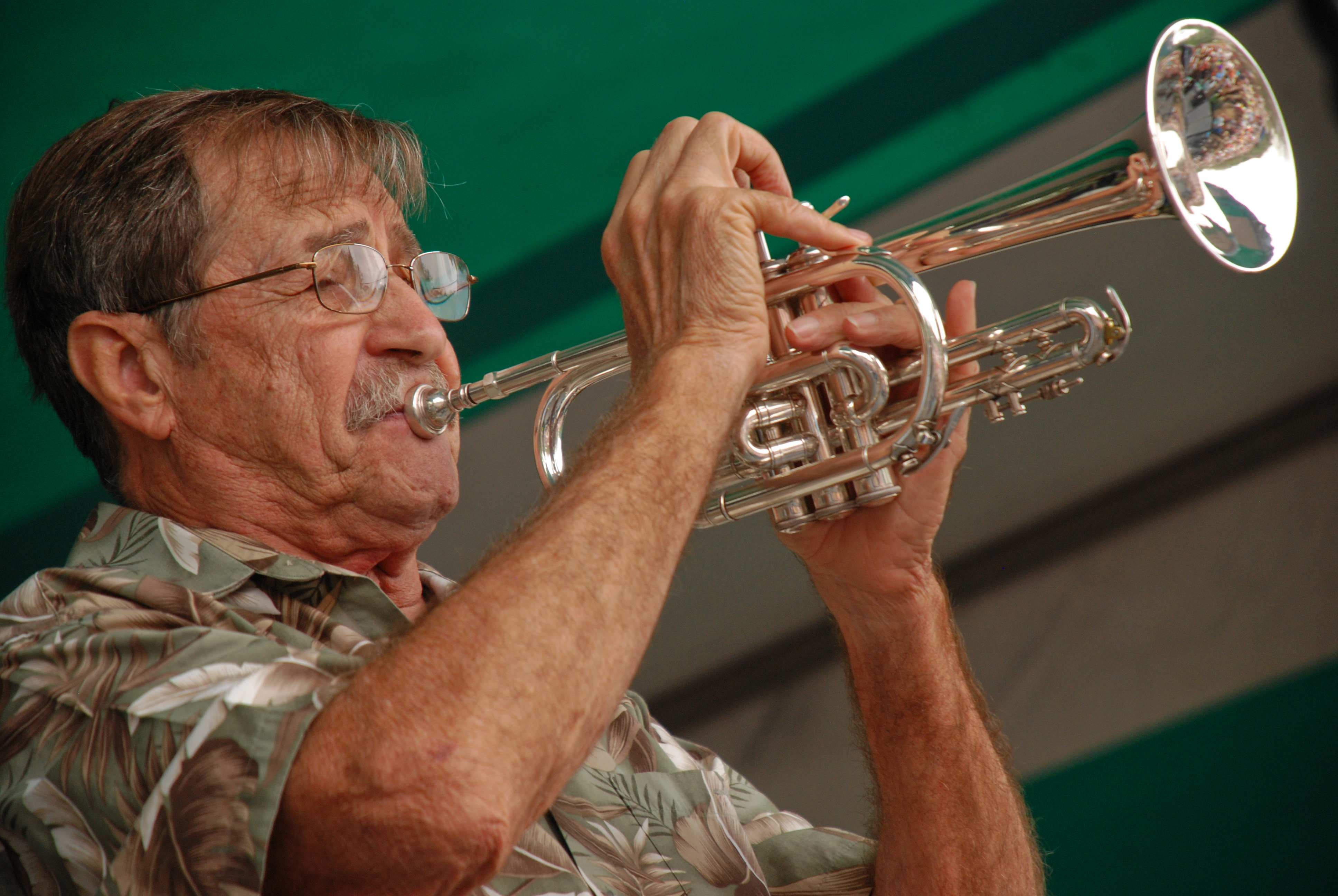 Jazz musician Connie Jones, French Quarter Fest, New Orleans.